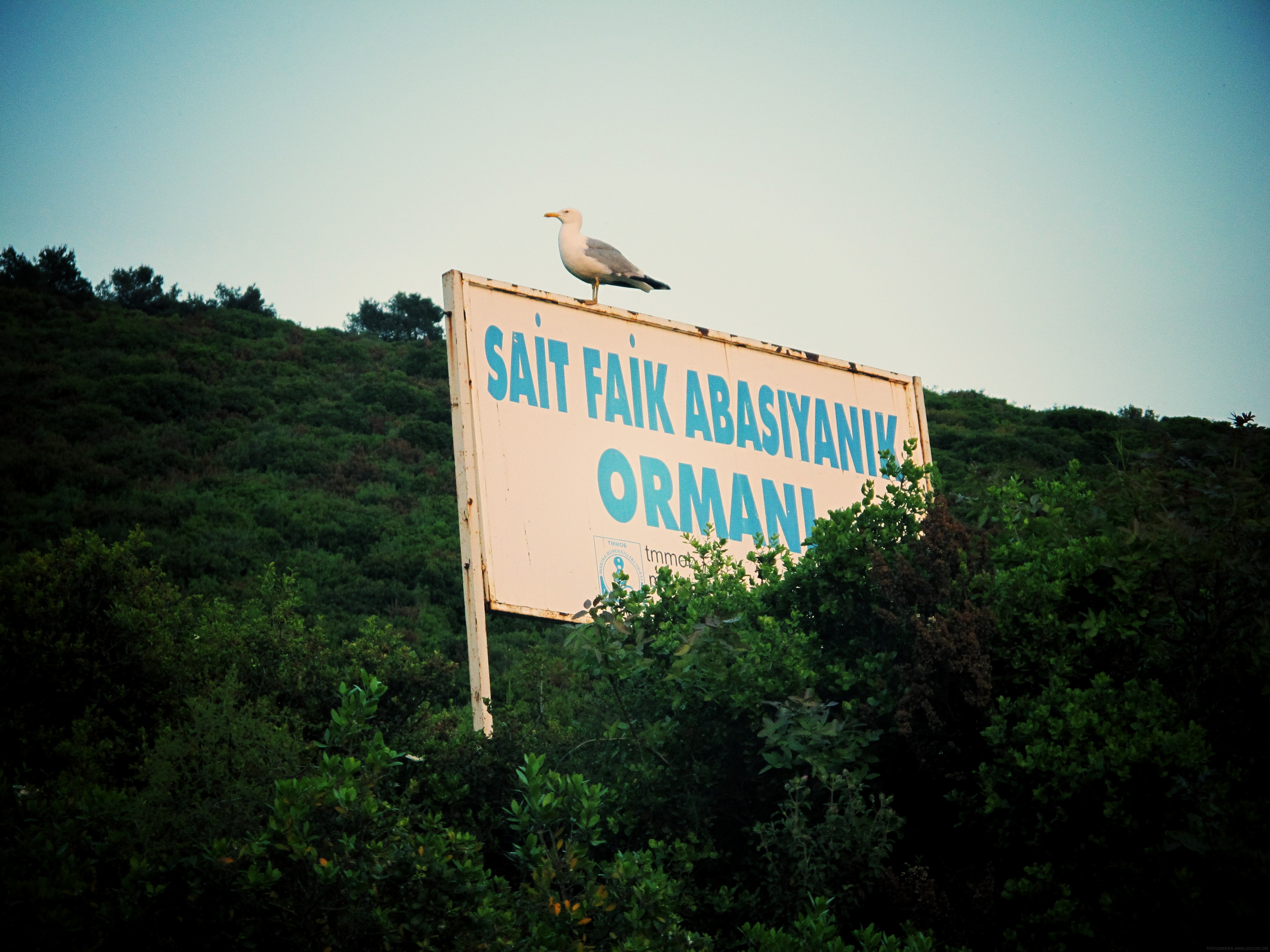 Sait Faik Forest in Burgazada, IstanbulTürkçe: Sait Faik Ormanı - Burgazada, İstanbul